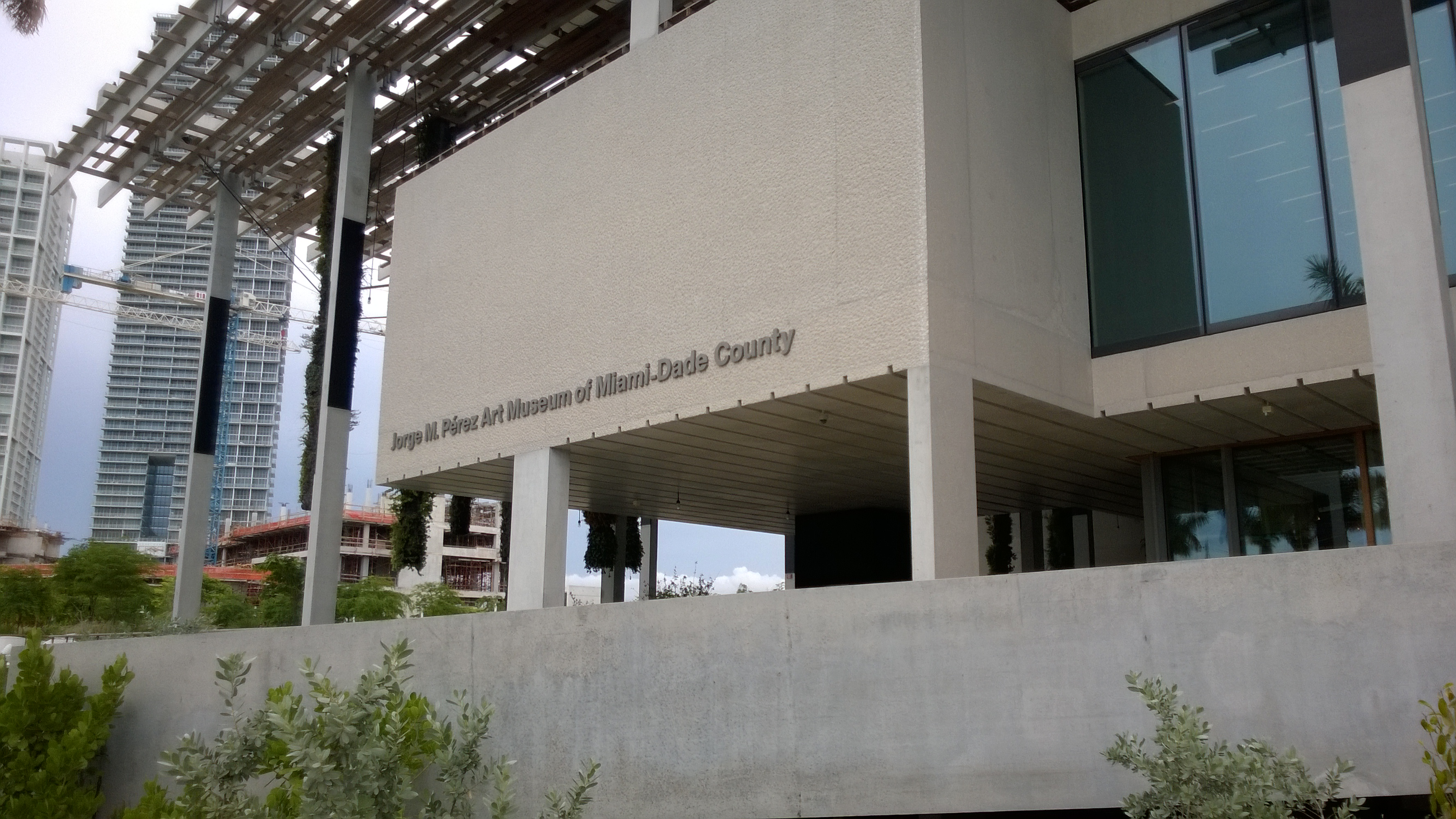 Front side sign on the Miami Art Museum.